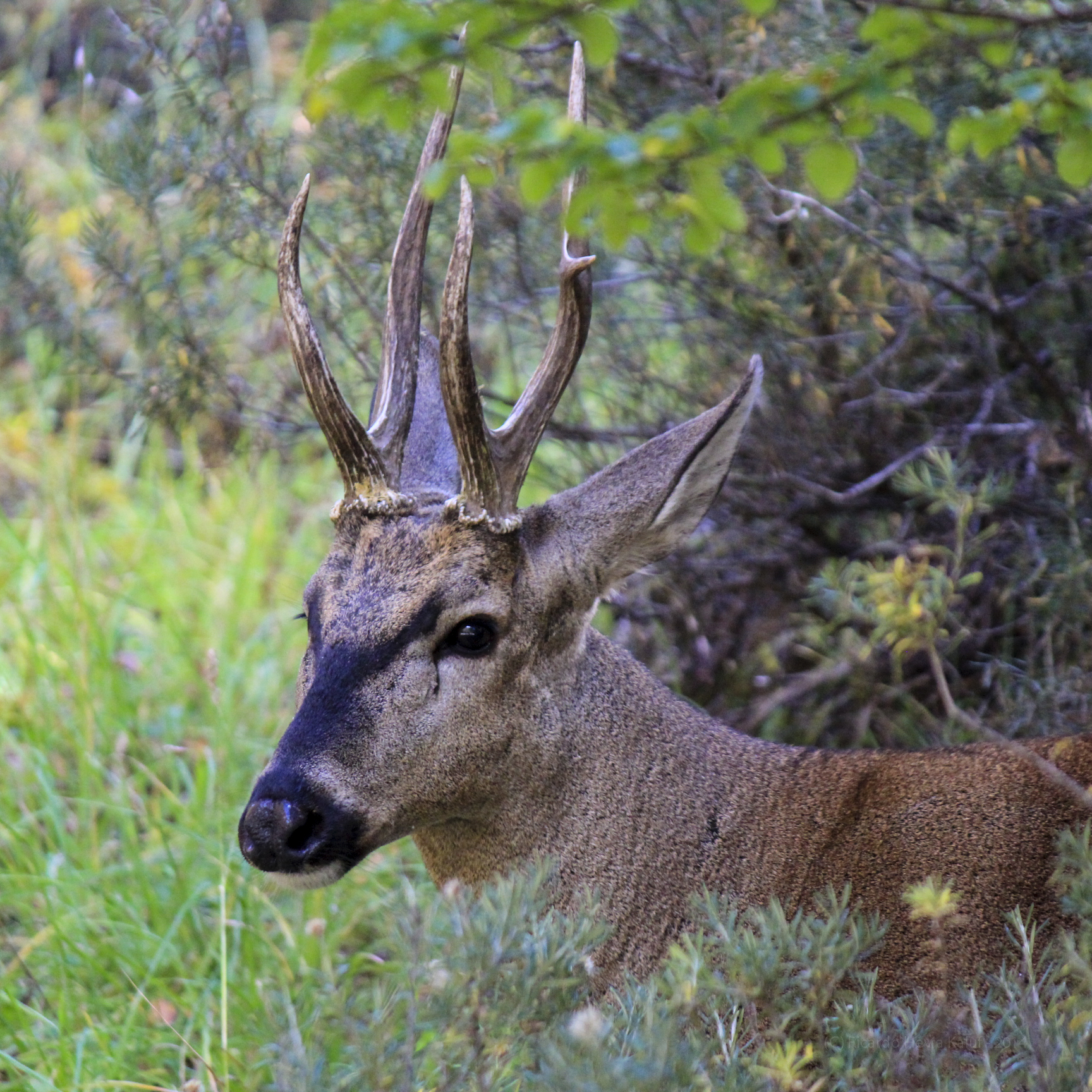 A male south Andean deer (Hippocamelus bisulcus) in Cerro Castillo National Reserve, Aysén Region, Chile